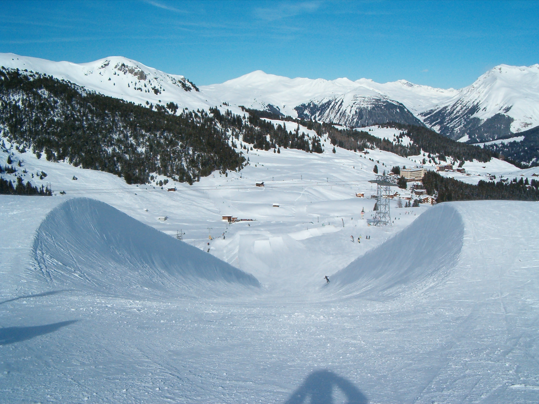 World Championships half-pipe in Arosa